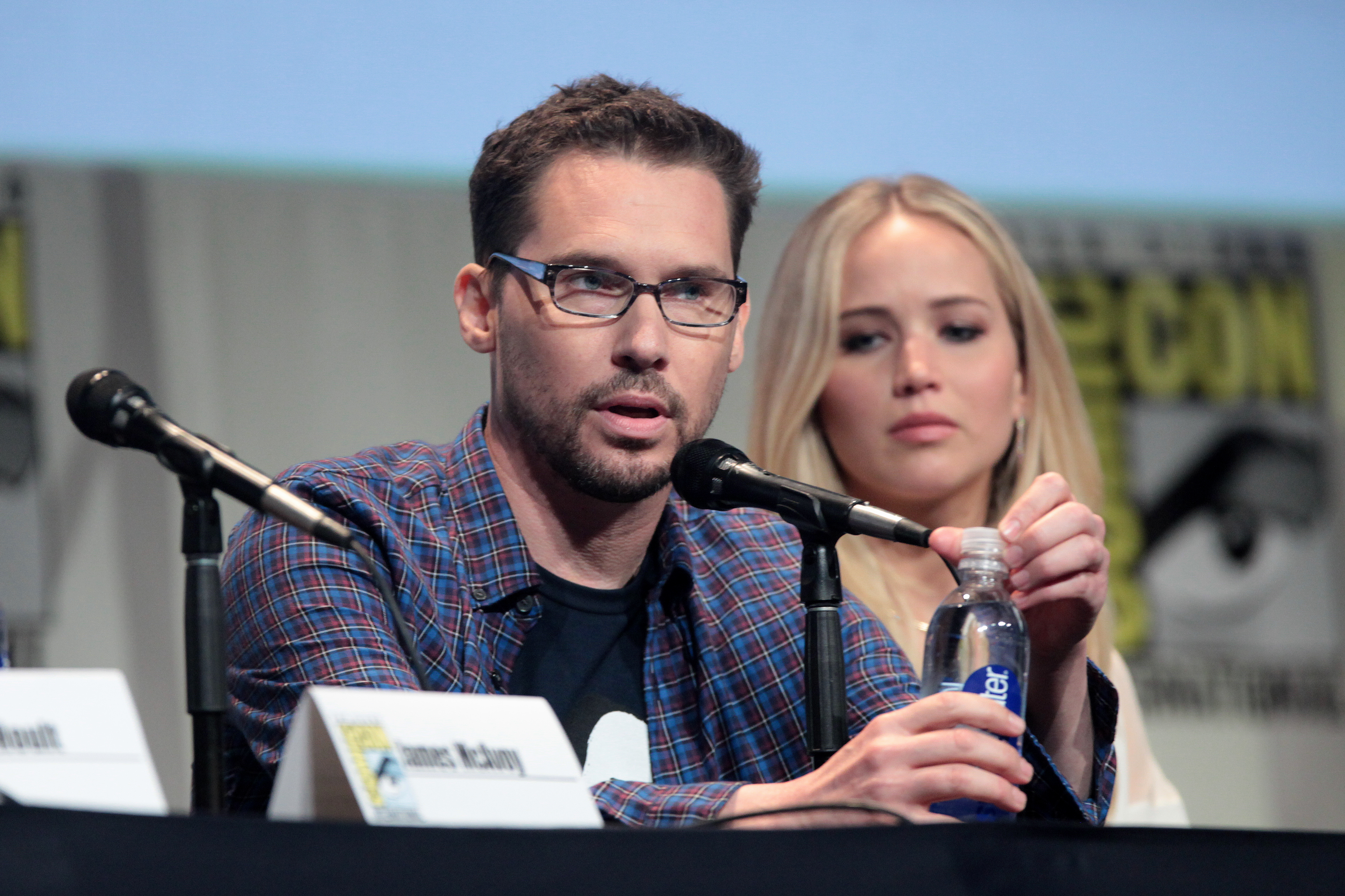 Bryan Singer and Jennifer Lawrence speaking at the 2015 San Diego Comic Con International, for "X-Men: Apocalypse", at the San Diego Convention Center in San Diego, California.